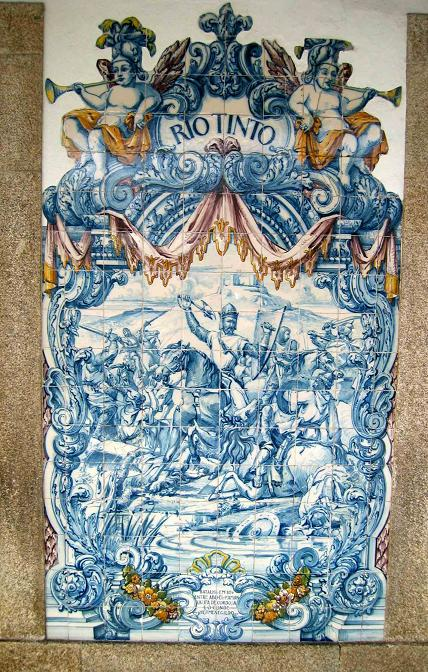 Azulejo - Train station of Rio Tinto - Portugal